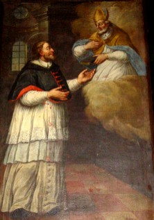 Saint Martin of Leon with Saint Isidore, who is appearing to him. Baroque painting.